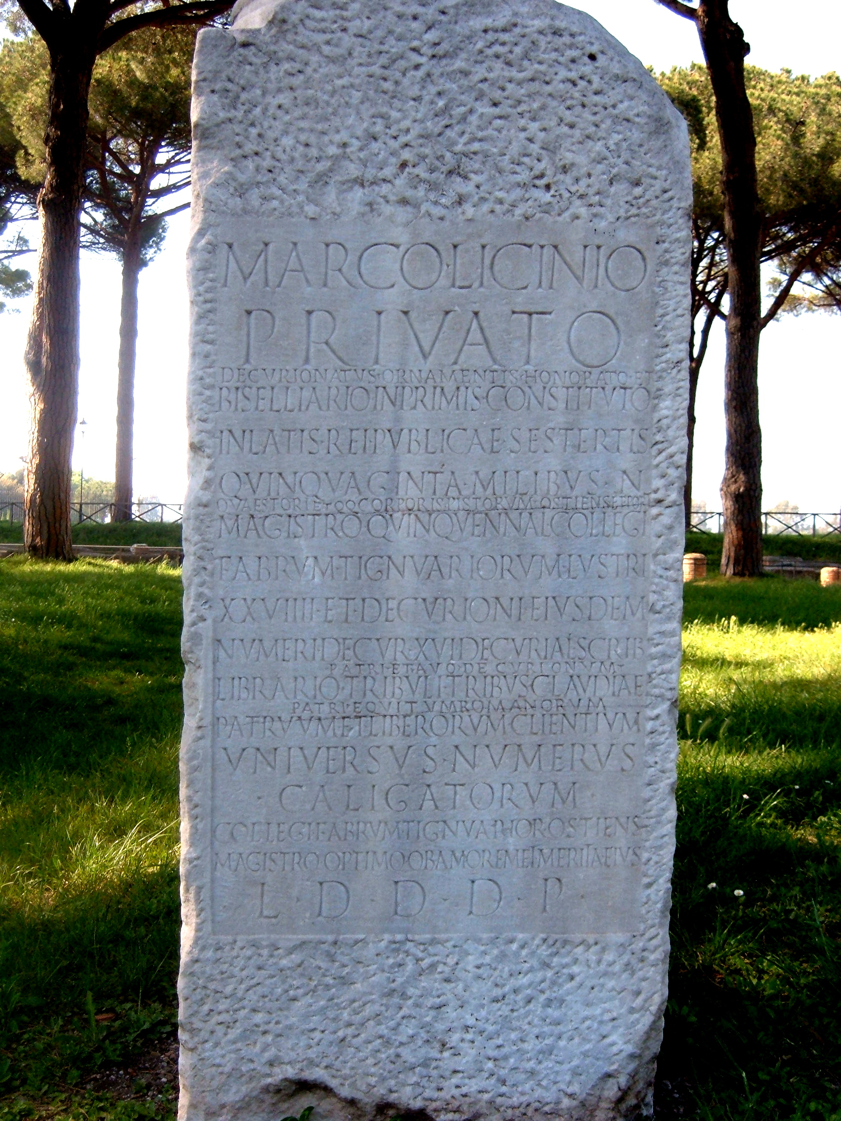 Honorary inscription payed for by public funds for Marcus Licinius Privatus, Magister of the College of Carpenters. Ostia Antica